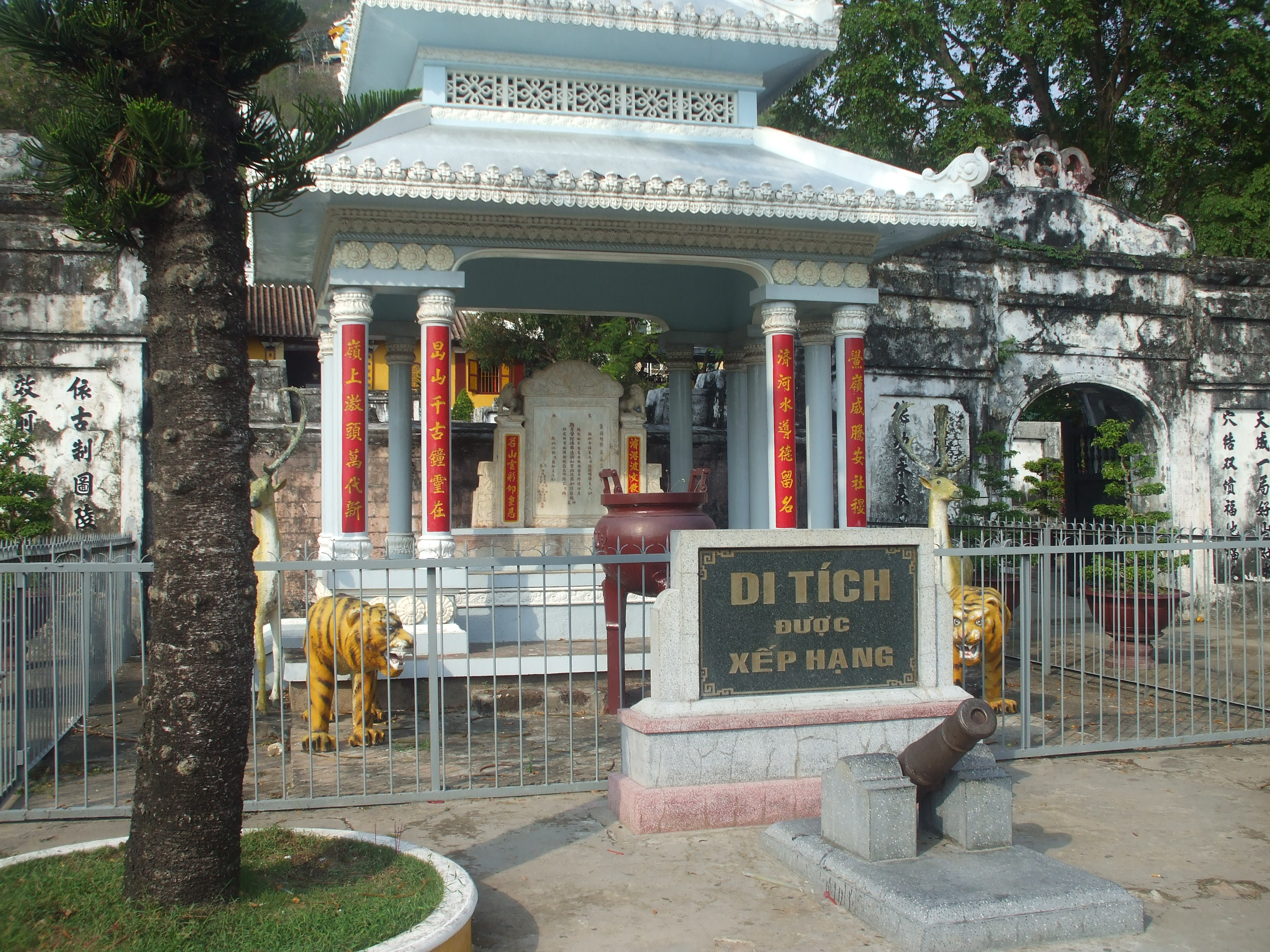 The court in front of the temple to Thoại Ngọc Hầu